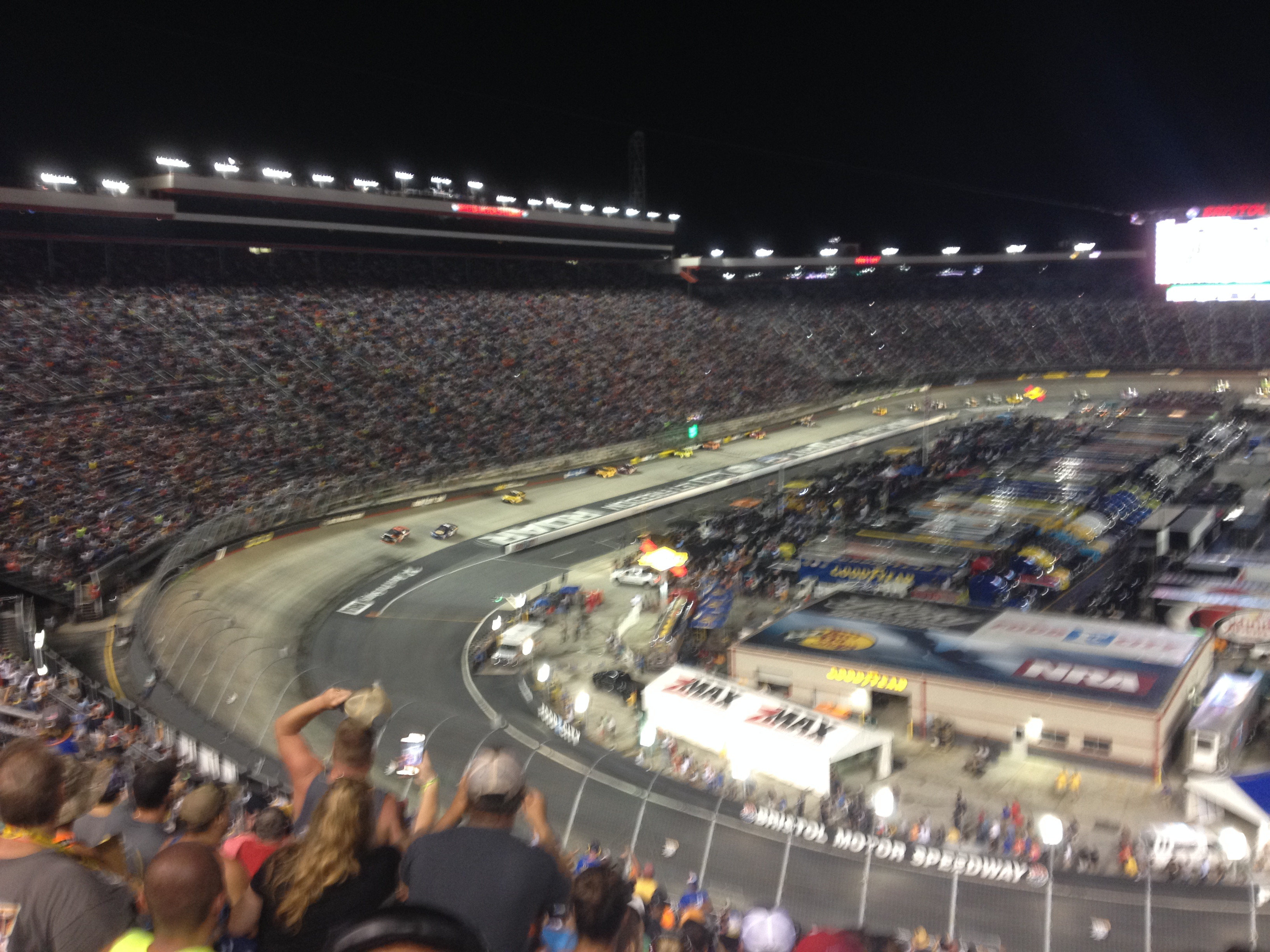 The 2016 Bass Pro Shops NRA Night Race viewed from the frontstretch, with Denny Hamlin (#11) leading early in the race